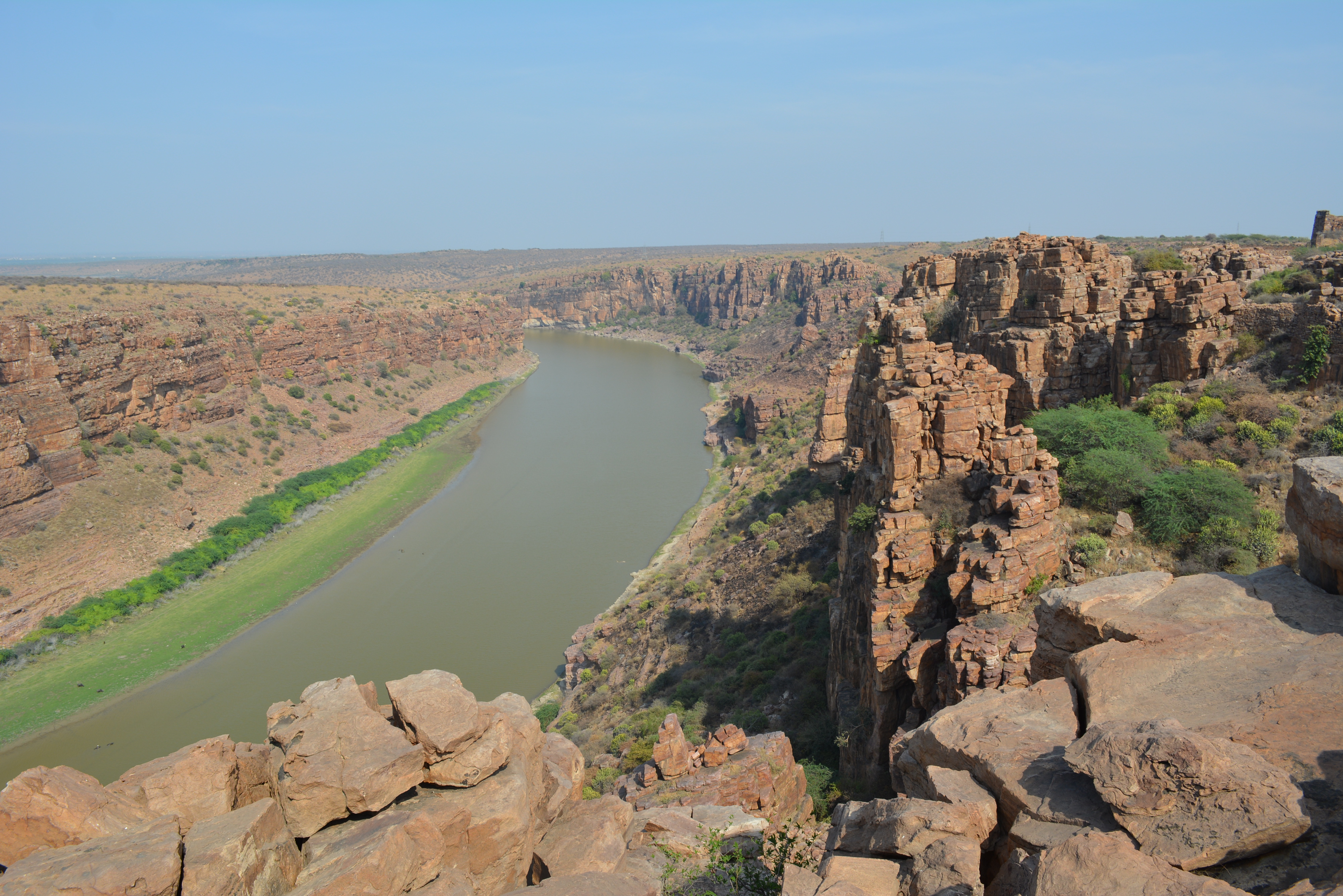 Pennar river near the Gandikota fort